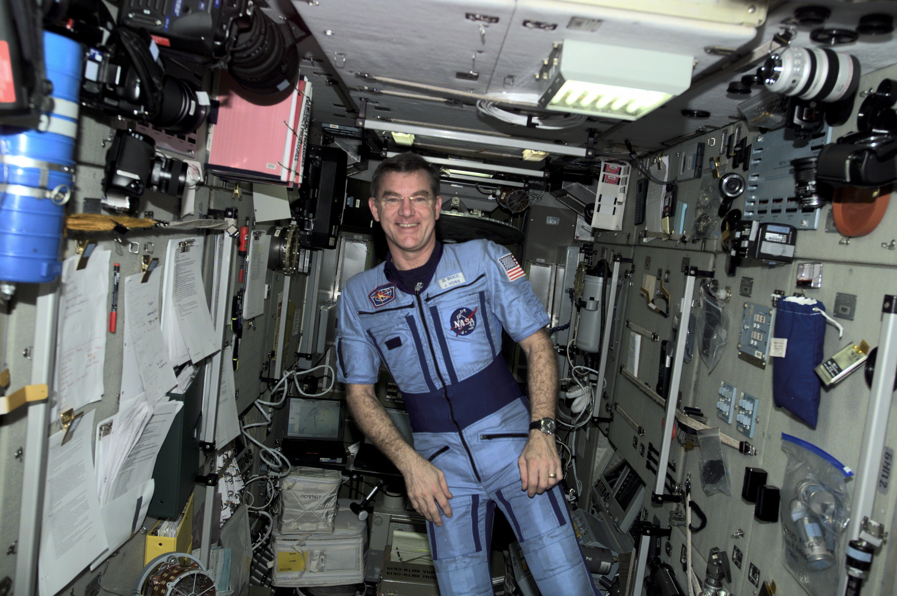 Astronaut James S. Voss, Expedition Two flight engineer, poses in his Russian flight suit in the Zarya / Functional Cargo Block (FGB) module of the International Space Station (ISS). This image was recorded with a digital still camera.